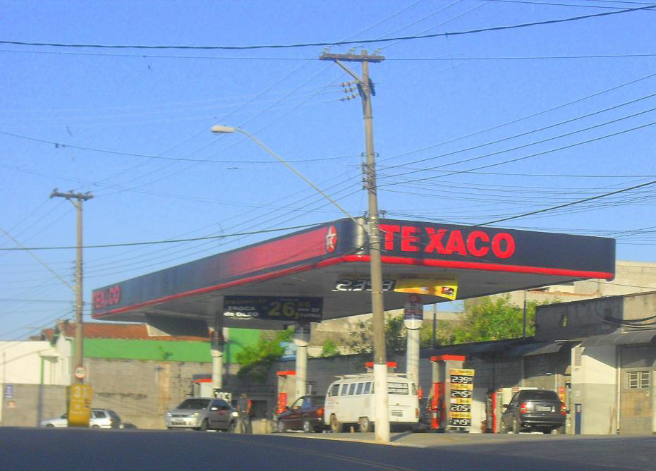 Texaco Petrol Station in Poá (São Paulo), Brazil.